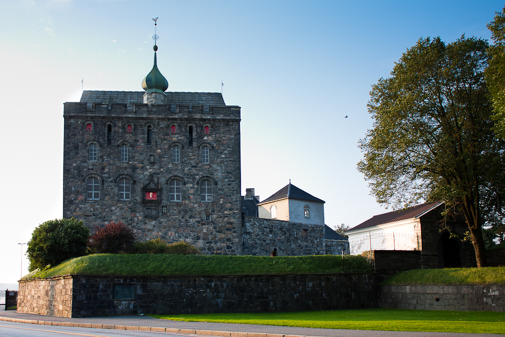 The first thing you'll see approching Bergenhus Festning from Bryggen. The tower shown is Rosenkrantztårnet.